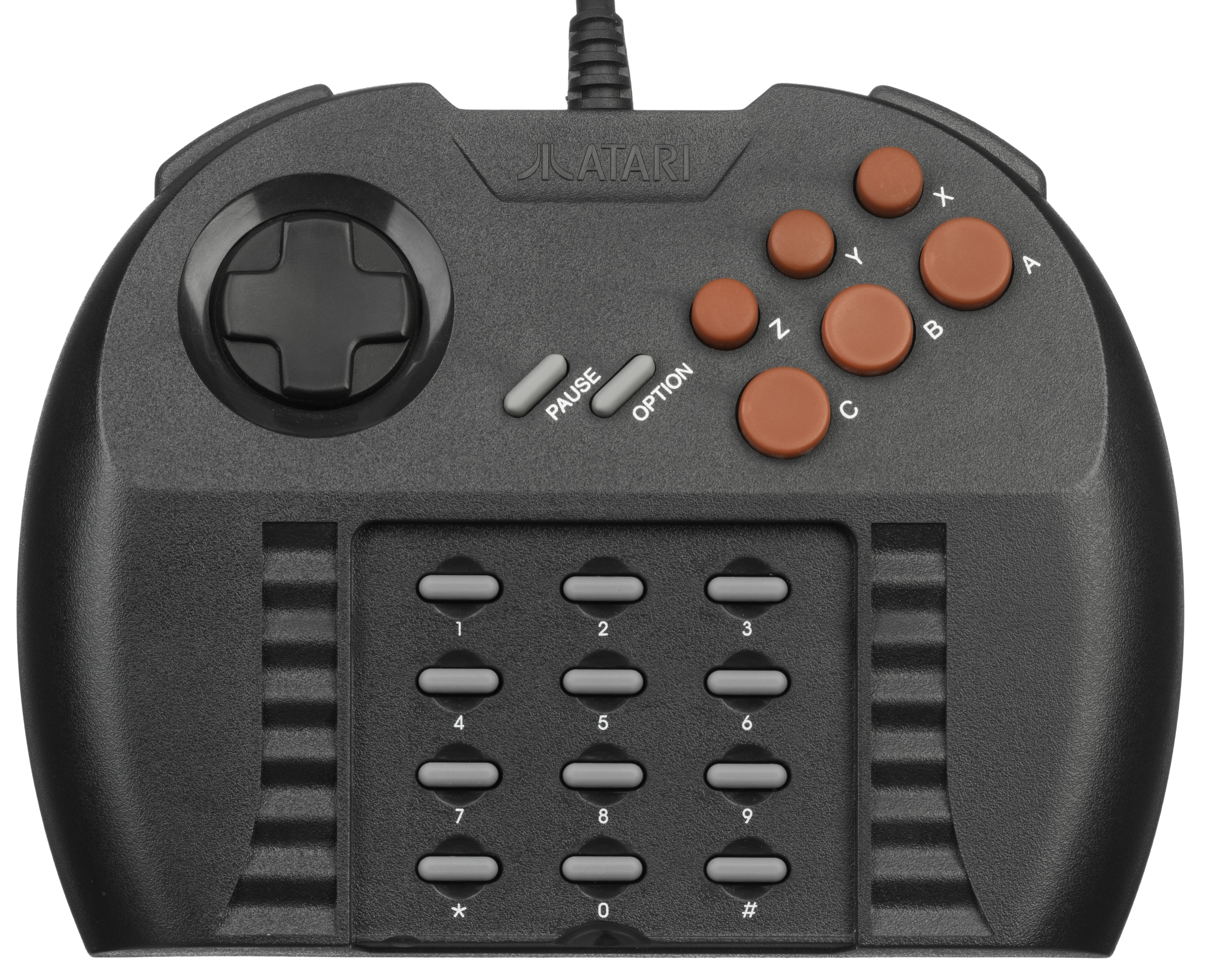 The Atari Jaguar's Pro Controller. The Pro Controller was released late in the Jaguar's life, making it rare today. The controller contains three additional face buttons and two L/R triggers on the top. Very few games make use of these extra buttons explicitly, but old games can make use of them since the new buttons are just remapped from the keypad buttons below.